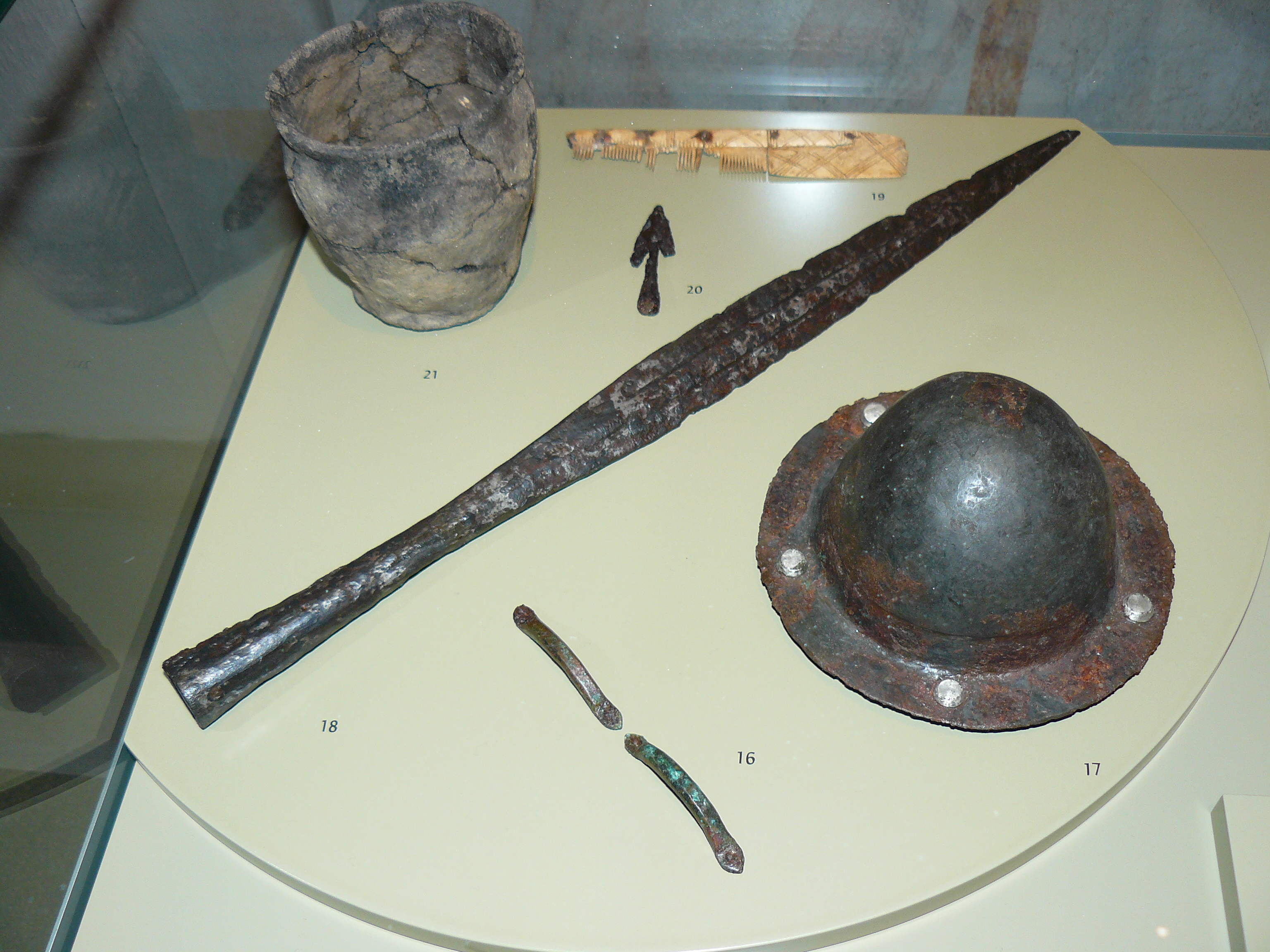 Gravegoods of two graves of the 7th century. Found in Eggolsheim, Landkreis Forchheim. Exposed in the Archäologie-Museum Oberfranken, Forchheim, Germany 16-18 Warrior grave (670/680 AD) 19-21 Childrens grave (middle of the 7th century) 16 Attachment of a scramax 17 shield boss 18 lancehead 19 comb 20 arrowhead 21 pot